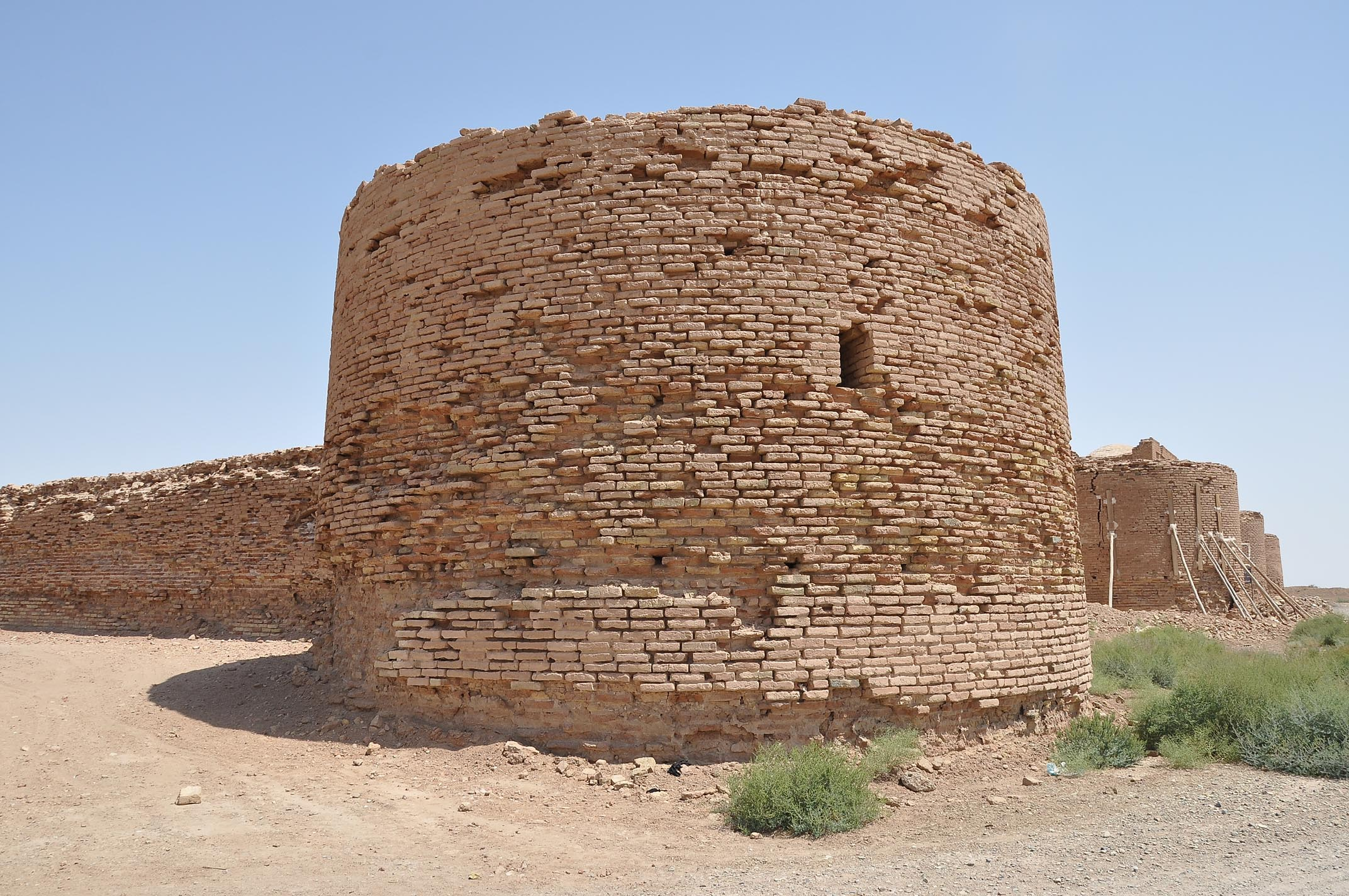 Tower of Dayr-e Gachin